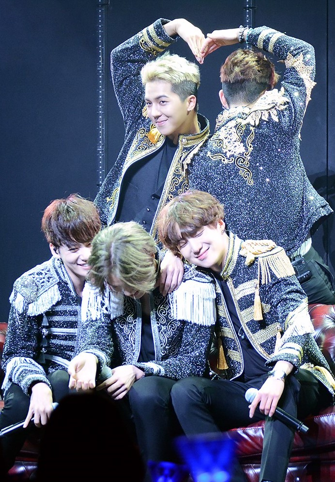 WINNER Japan Tour in Aichi, on October 9, 2015.